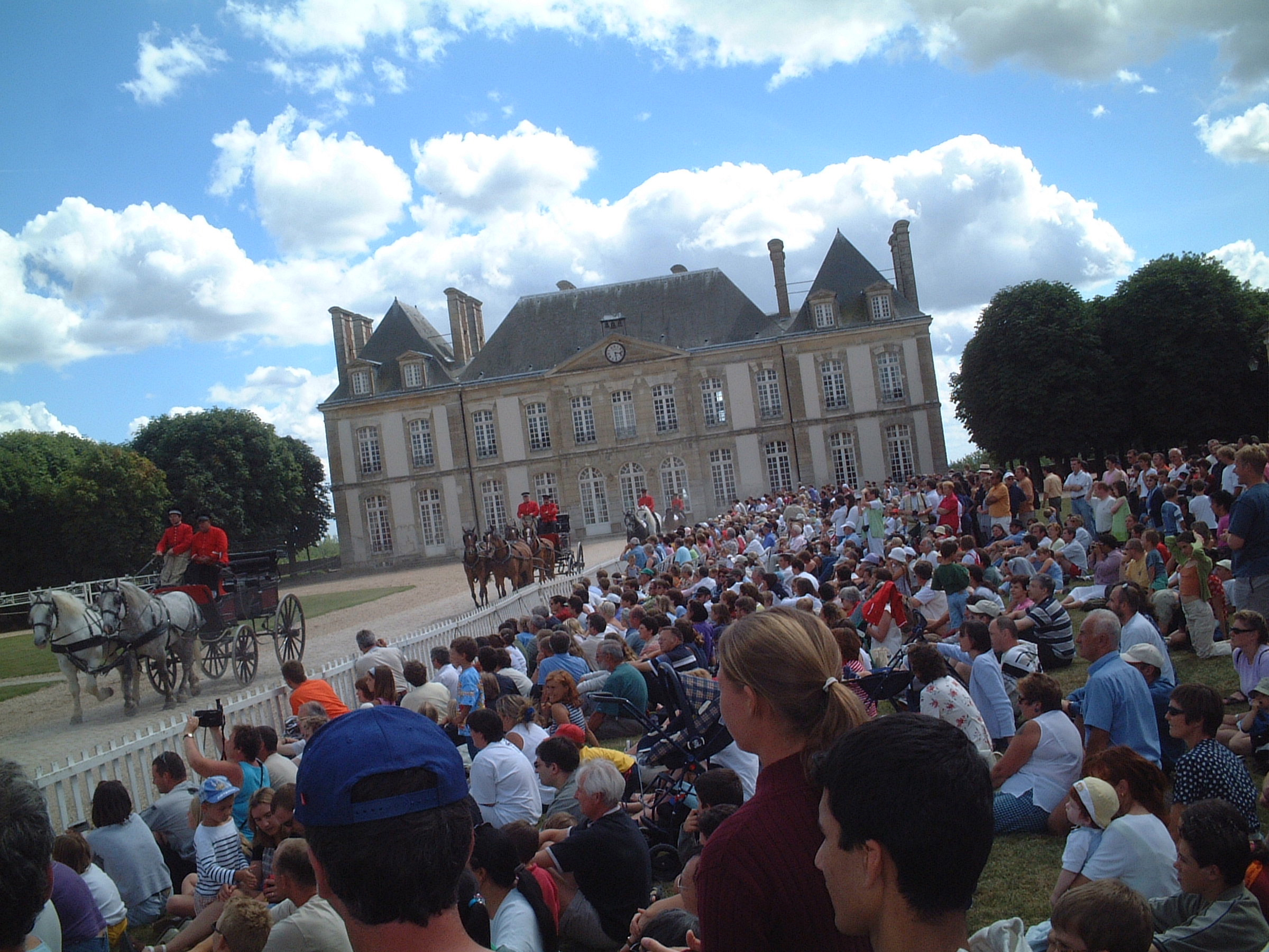 Presentation at the Haras du Pin